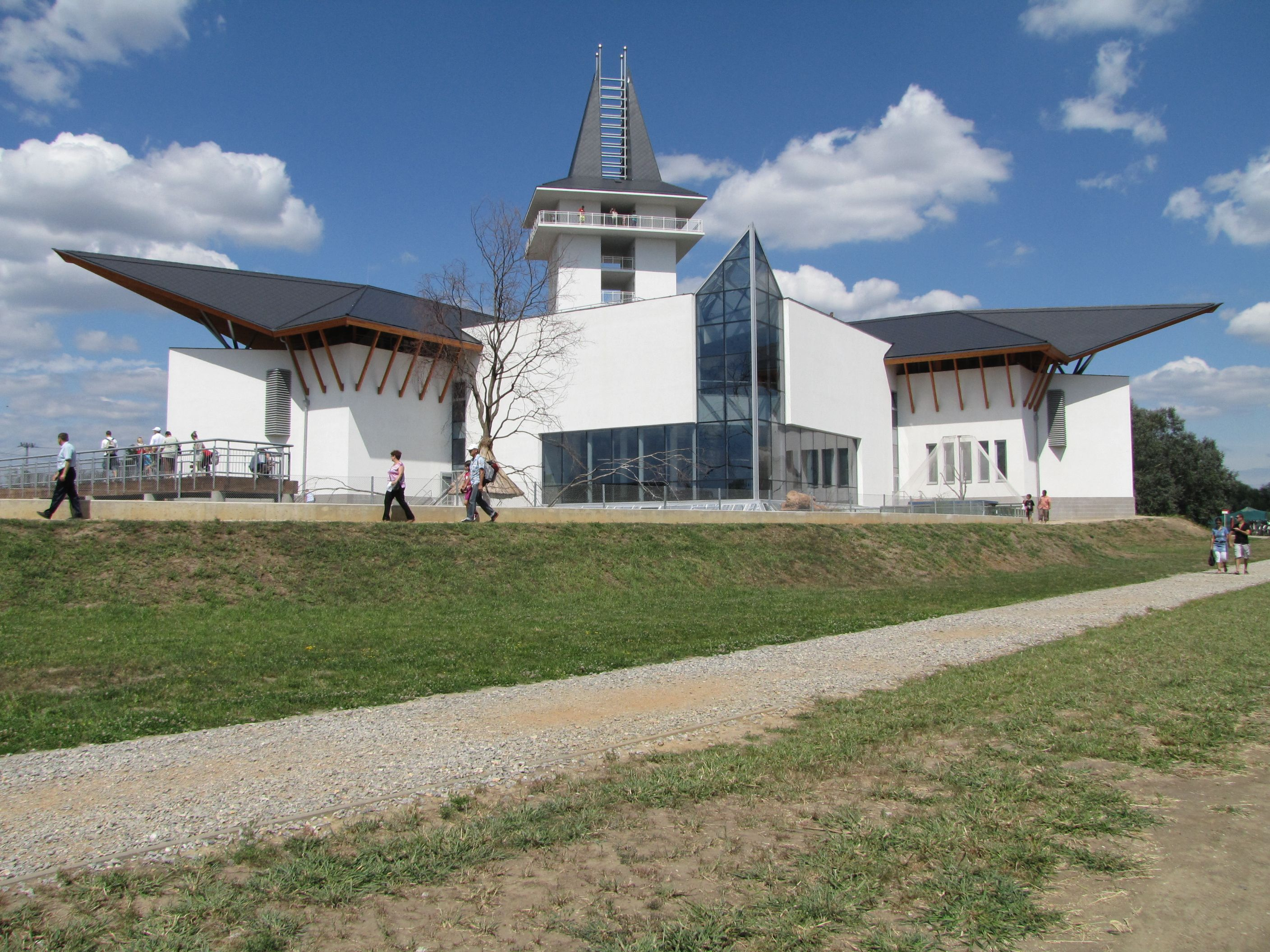 Lake Tisza Ecocenter, Poroszló, Hungary